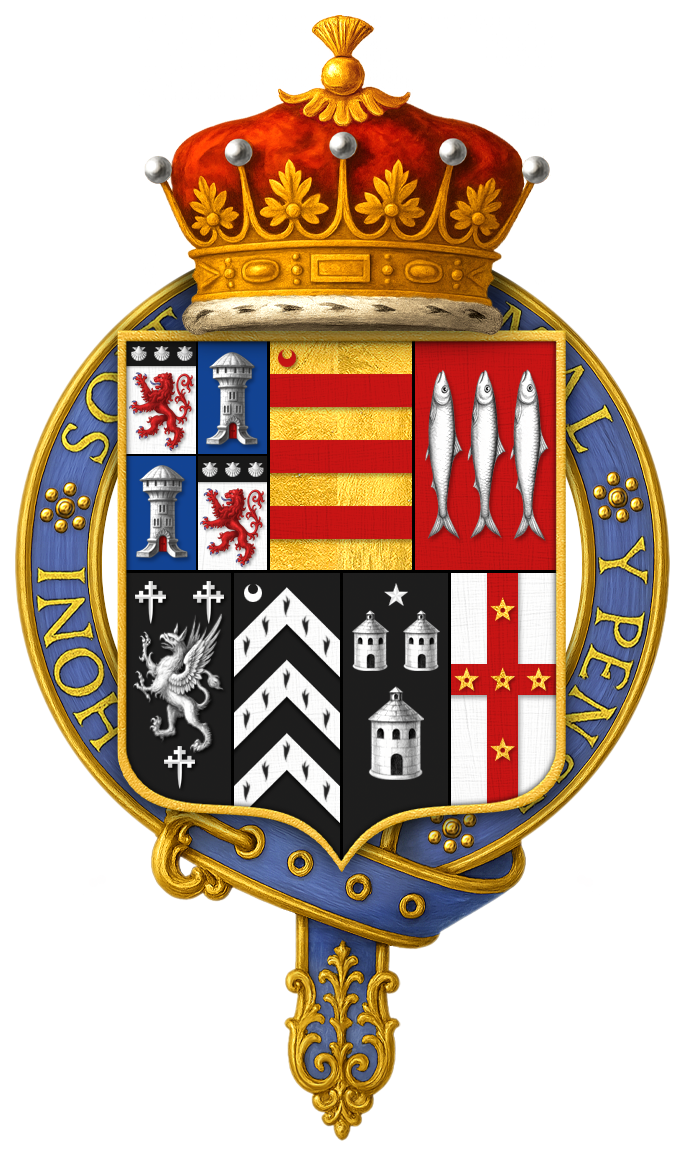 Quartered arms of Sir Francis Russell, 2nd Earl of Bedford, KG Quartering based on an armorial binding for the 2nd Earl, in the British Armorial Bindings collection of The University of Toronto